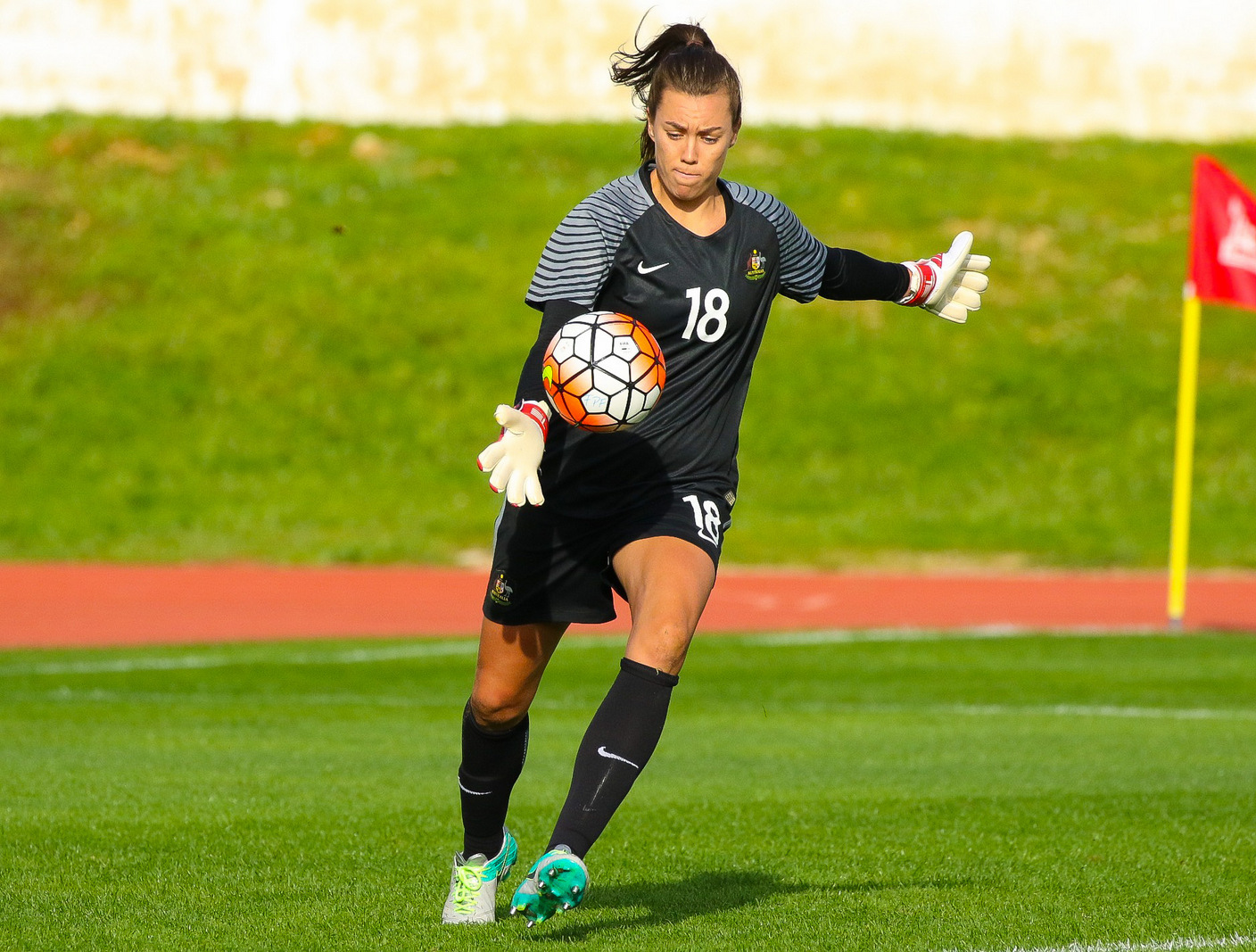 Mackenzie Arnold at the 2017 Algarve Cup